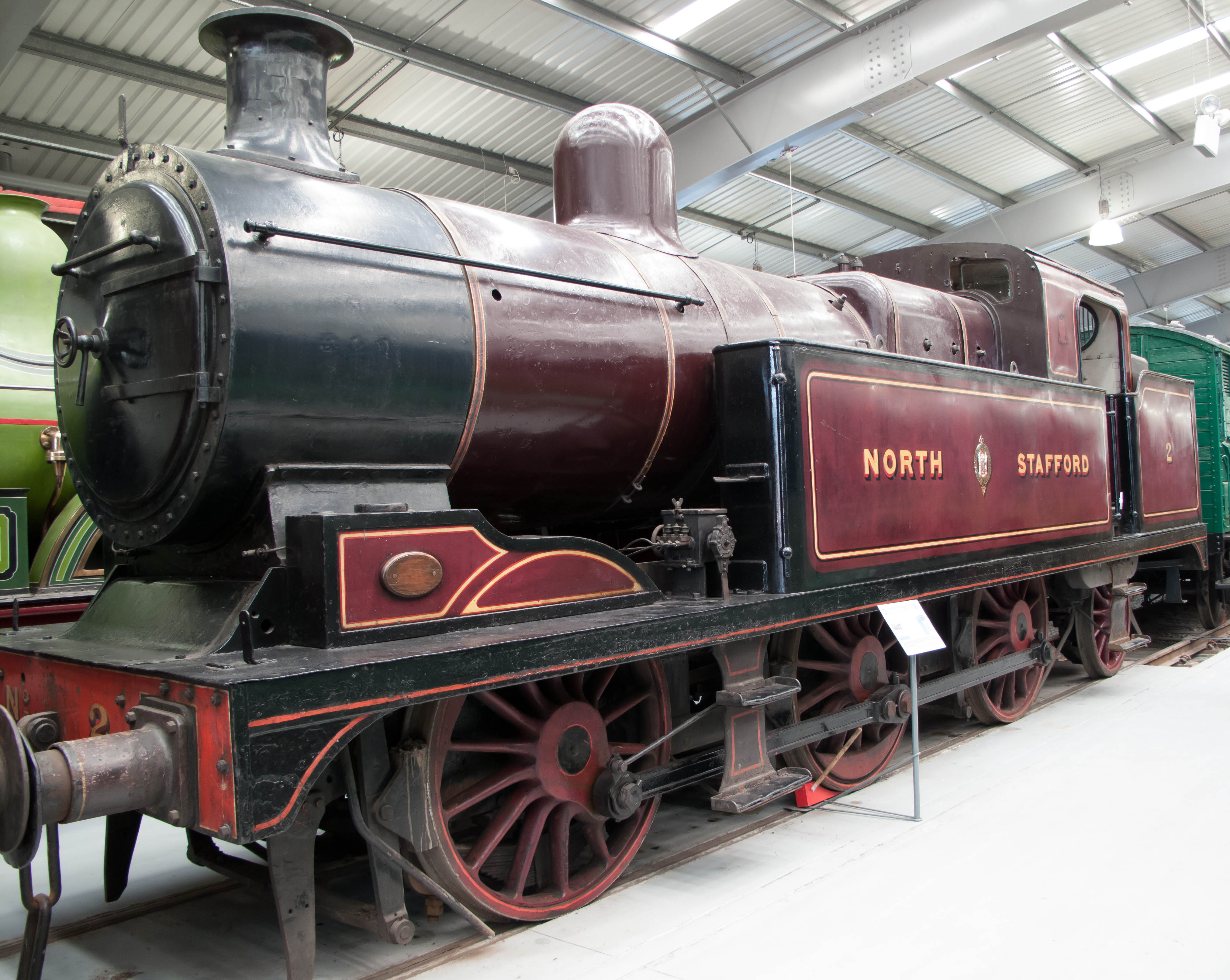 North Stafford Railway "New L" class. Displayed at the National Railway Museum, Shildon